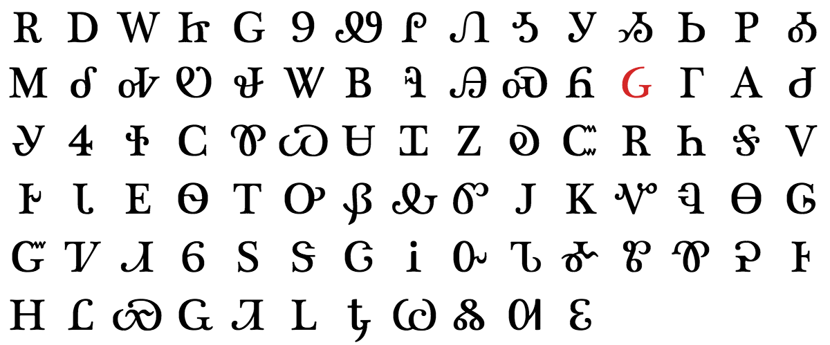 The original order of the Cherokee syllabary, invented by Sequoyah. The character in red is now obsolete and does not exist in the modern language.